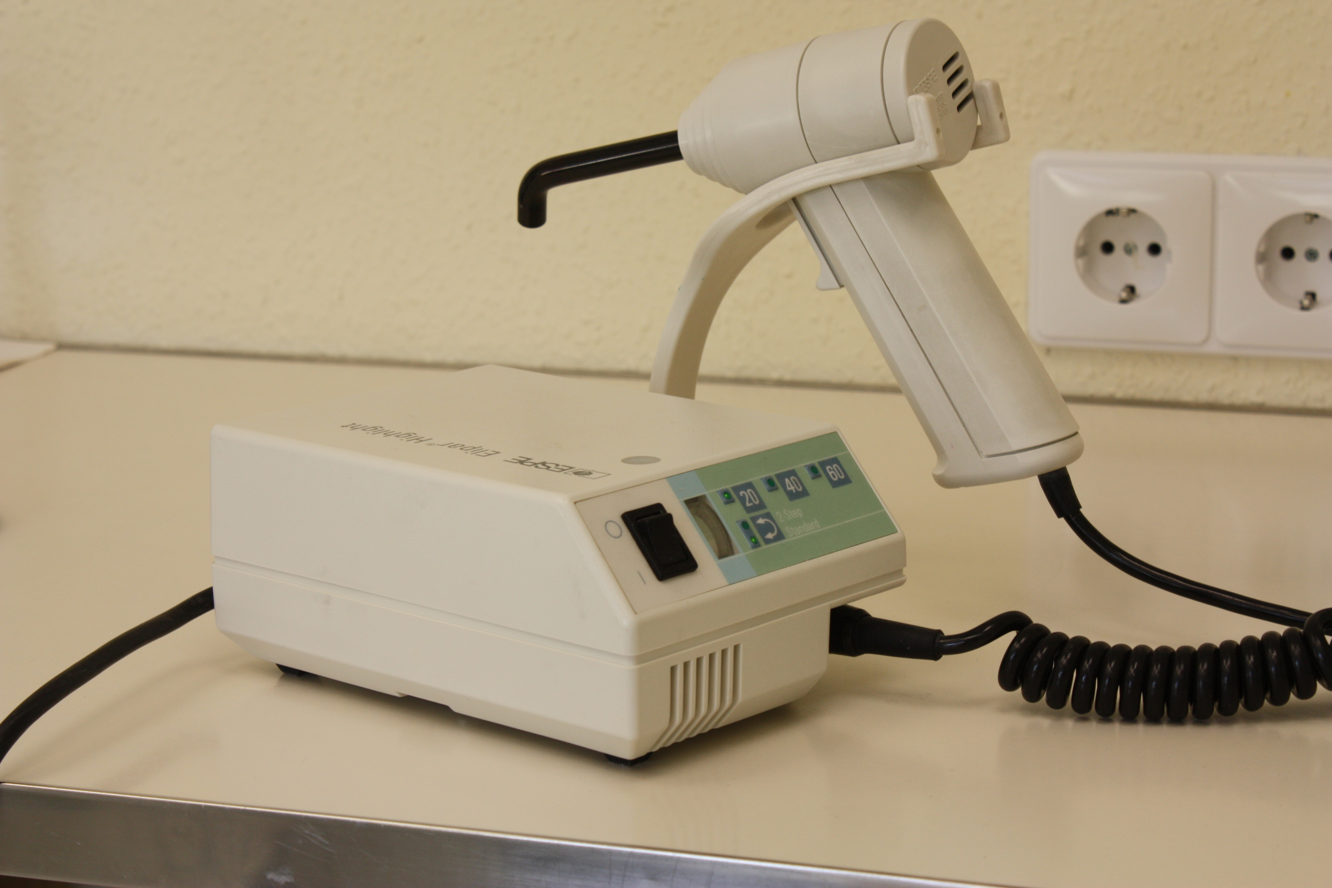 Polymerisationslampe für Komposite (Zahnmedizin) 2009